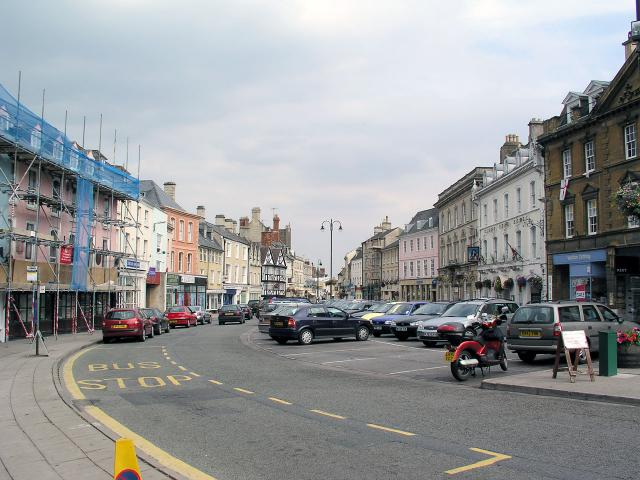 Cirencester marketplace. looking ESE